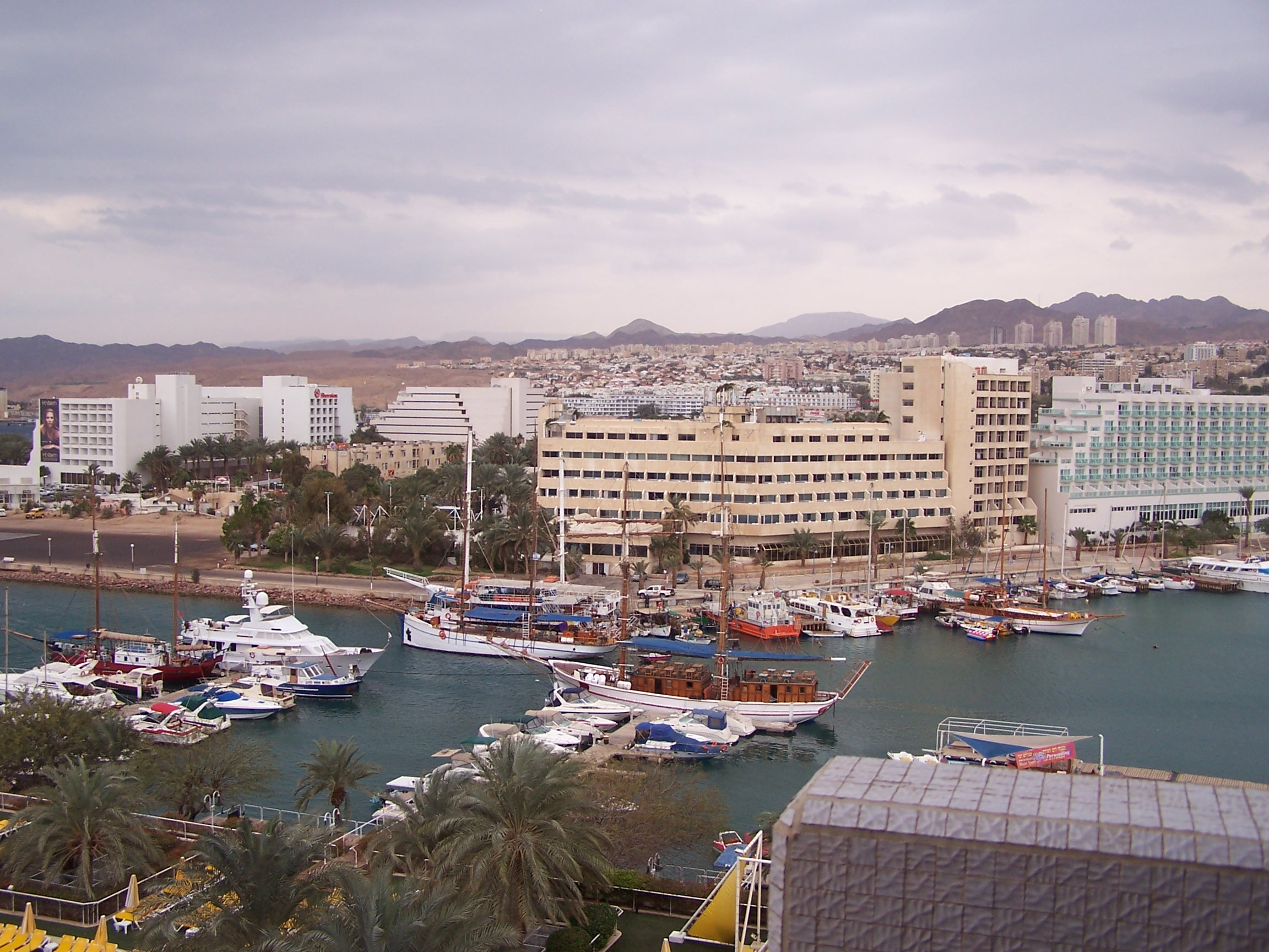 Ceasar Resort Hotel in Eilat, Israel